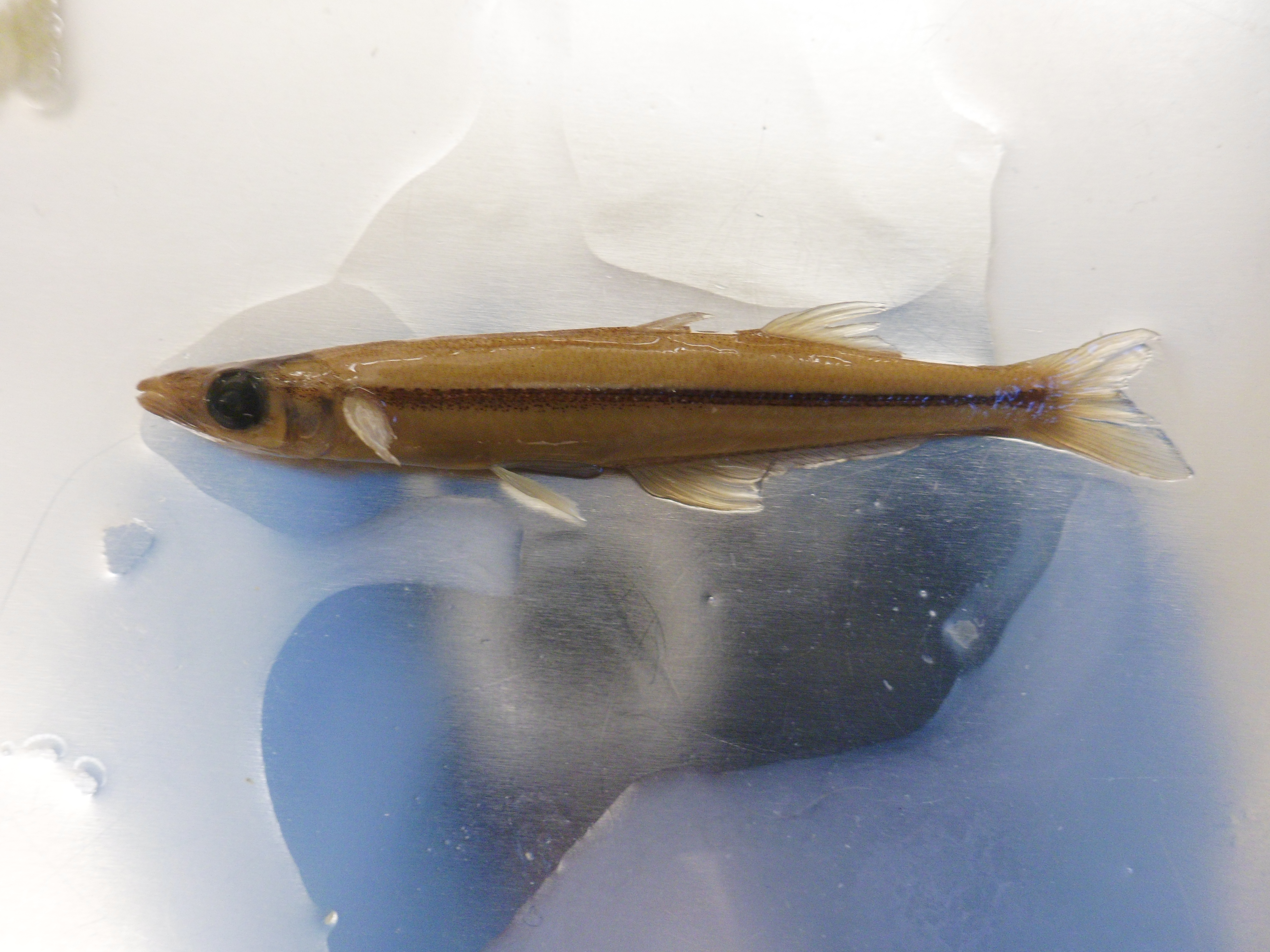 Photo of L. sicculus